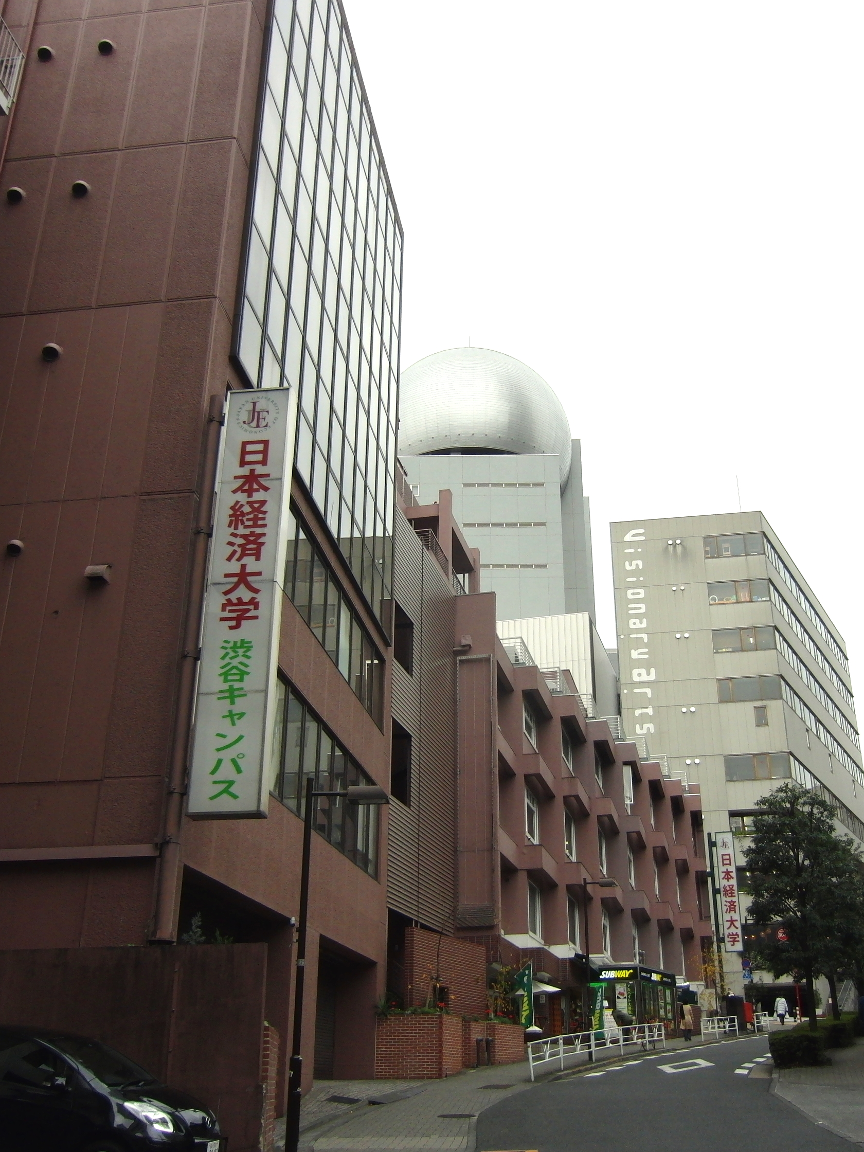 Shibuya Campus of Japan University of Economics, Shibuya, Tokyo, Japan